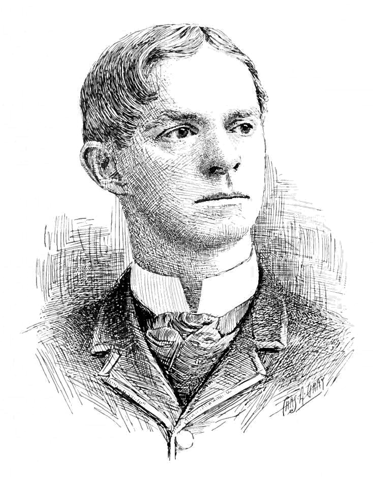 Drawing of Benjamin Franklin King, Jr., poet & humorist, by Chas. A. Gray